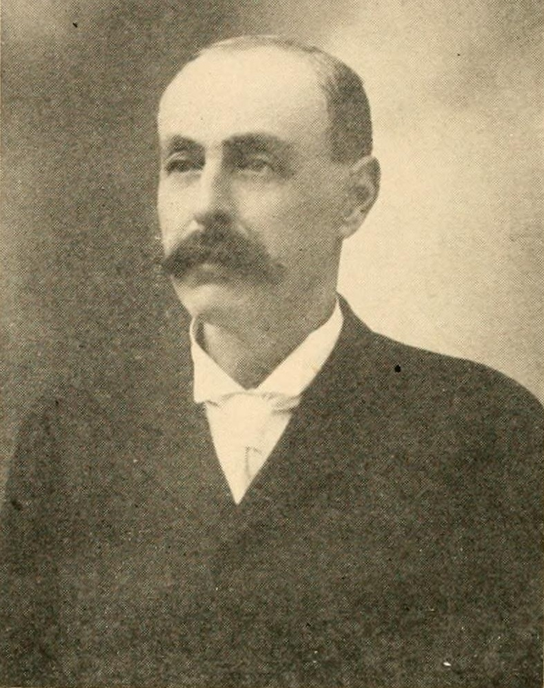 Elliot M. Sutton (Mayor of Burlington, Vermont)